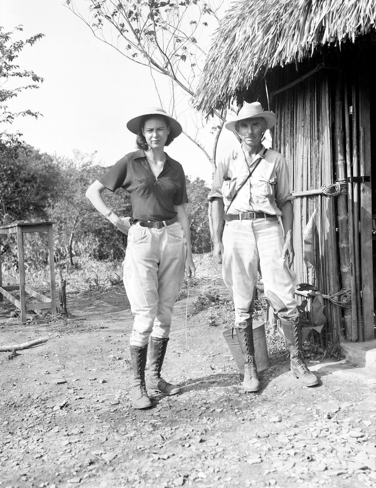 Marion Stirling and Matthew Stirling, dressed in field clothes, outside a building in Boca San Miguel, Veracruz, Mexico, on 15 April 1939. Photograph taken by Alexander Wetmore during a visit to the Stirlings' archaeological expedition to Mexico and held in the Smithsonian Institution Archives.